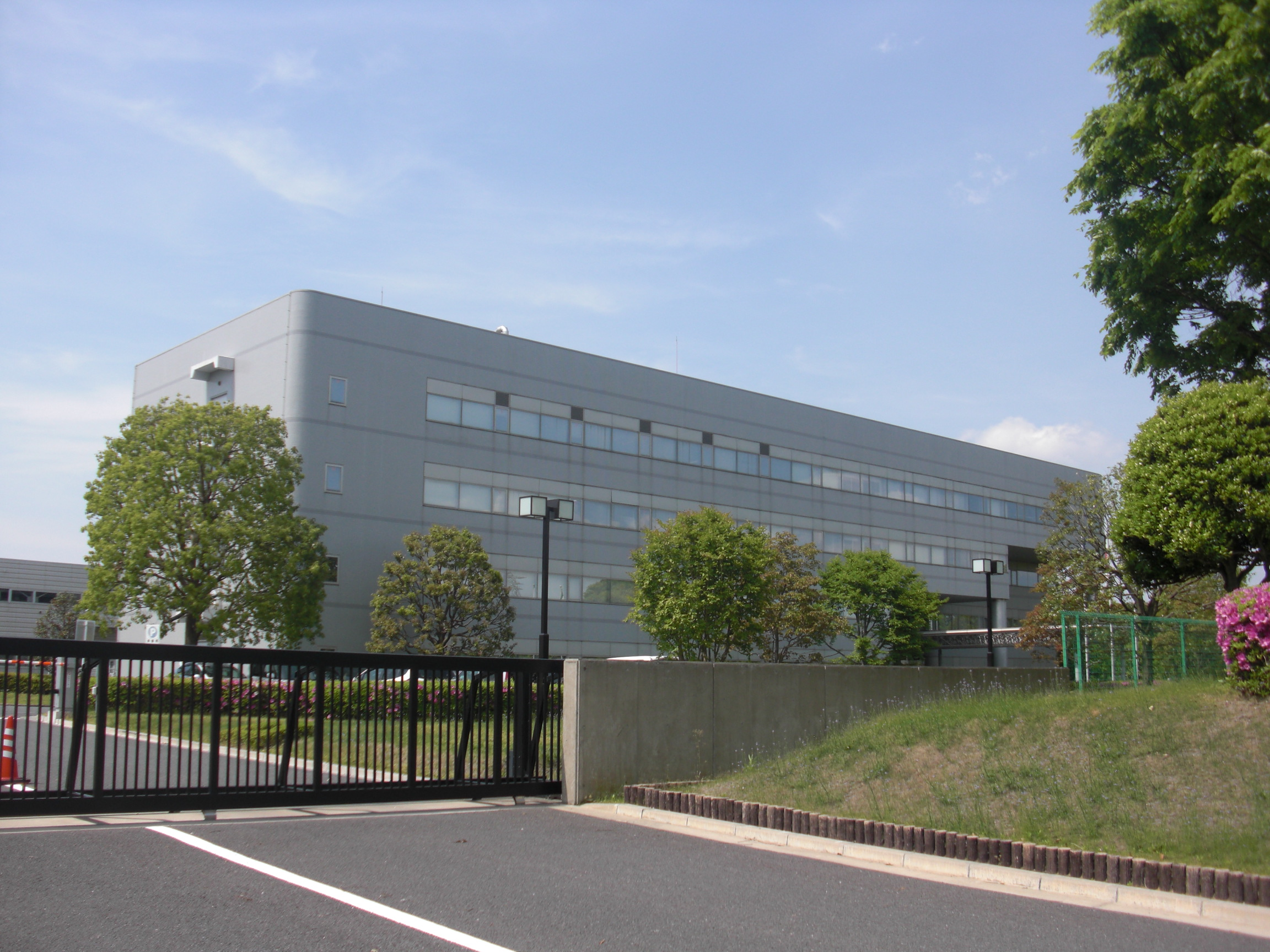 This is the Tanaka Kikinzoku Kogyo K.K. Tsukuba Office & Technical Center in Tsukuba, Ibaraki, Japan.